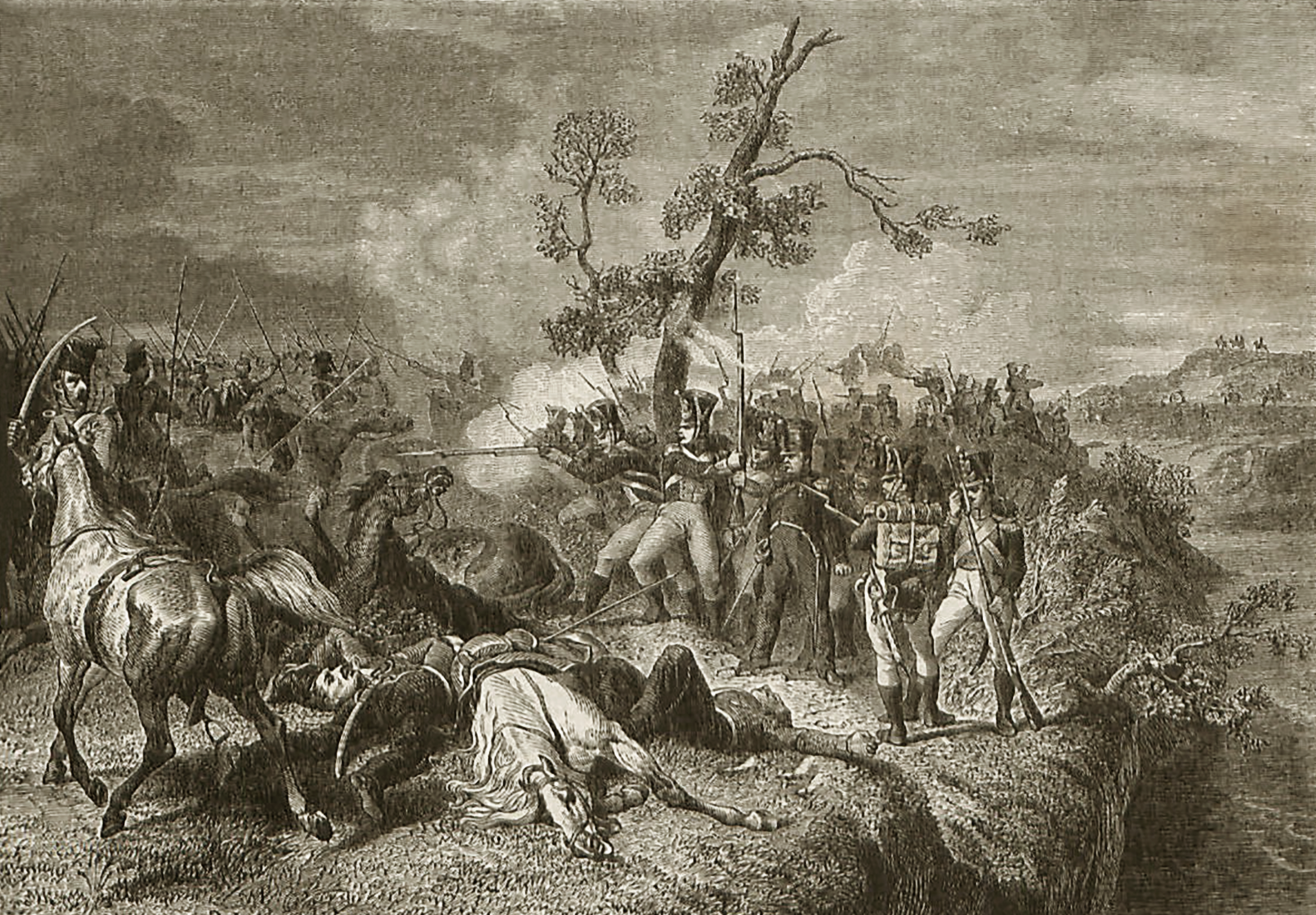 Battle between Russian troops and French cavalry, 25-26 July 1812 during the Russian campaign